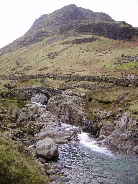 Stockley Bridge over Grains Gill in Borrowdale, Cumbria, with Seathwaite Fell in the background